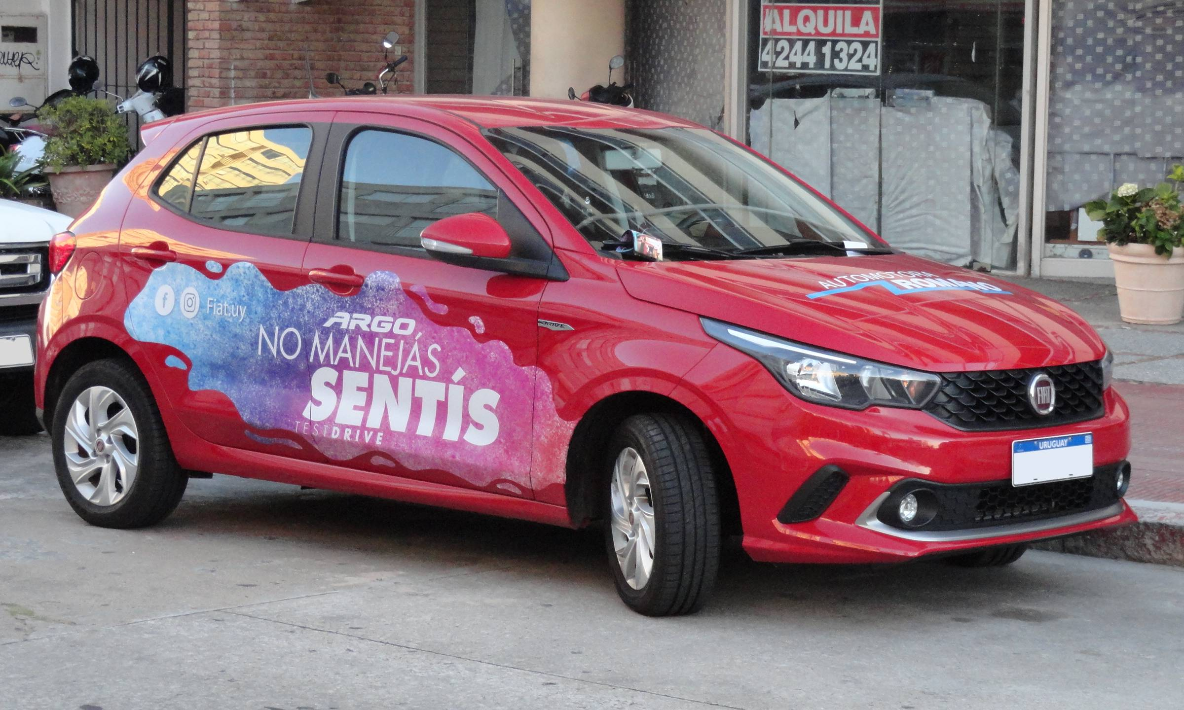 Fiat Argo test drive car in Punta del Este.